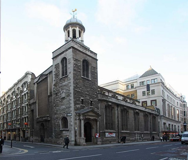 St Katharine Cree, Leadenhall Street, London EC3, near to Shoreditch, Islington, Great Britain.